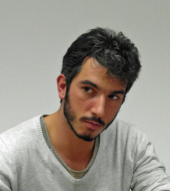 The Italian journalist and human rights activist Gabriele del Grande (29.11.2013, holding a lecture about Syria in the Psychosocial Centre for Refugees Düsseldorf)